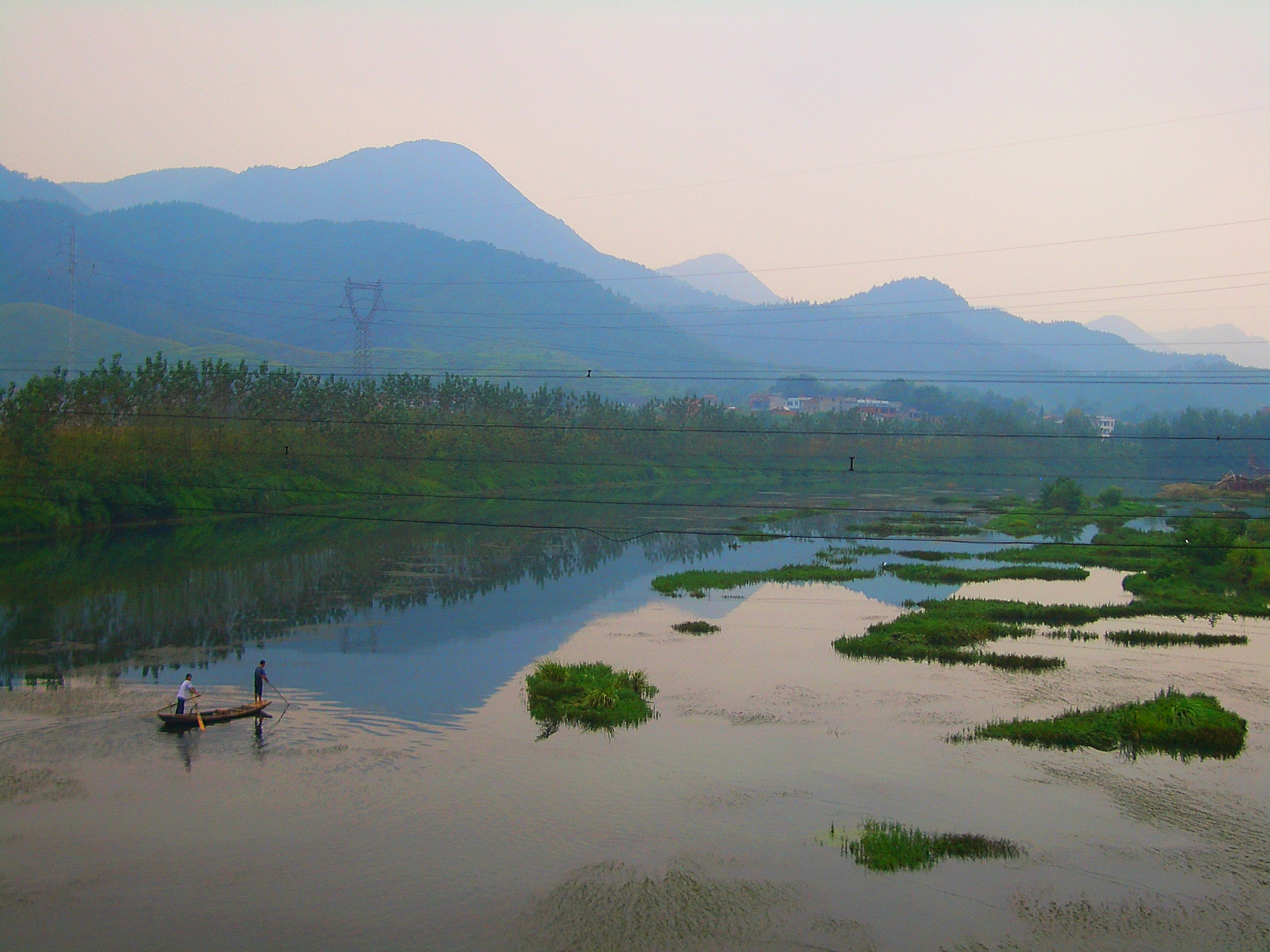 A view of the Fushui (富水) River from the bridge on the National Highway G106/G316 in Yangxin County, Hubei (between Longgang and Futu).